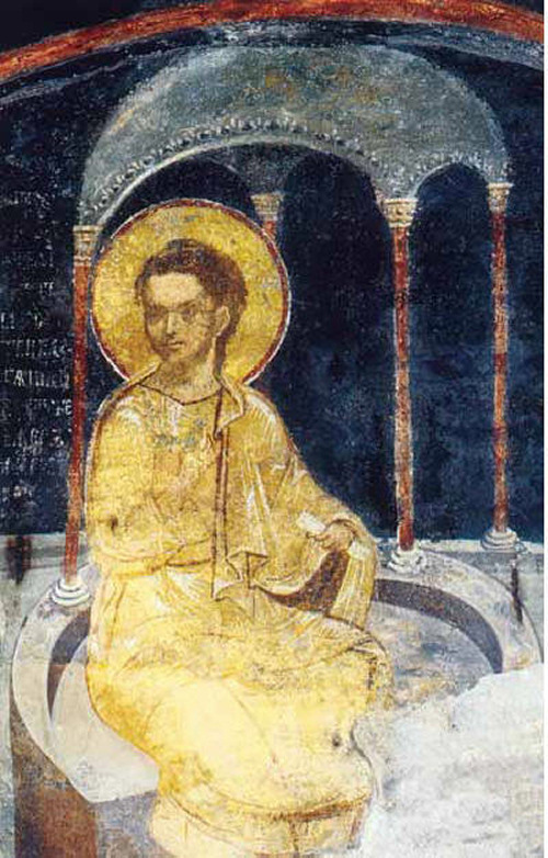 "Christ among the scribes". Fresco from the Boyana Church, dated 1259 year. Sofia, Bulgaria